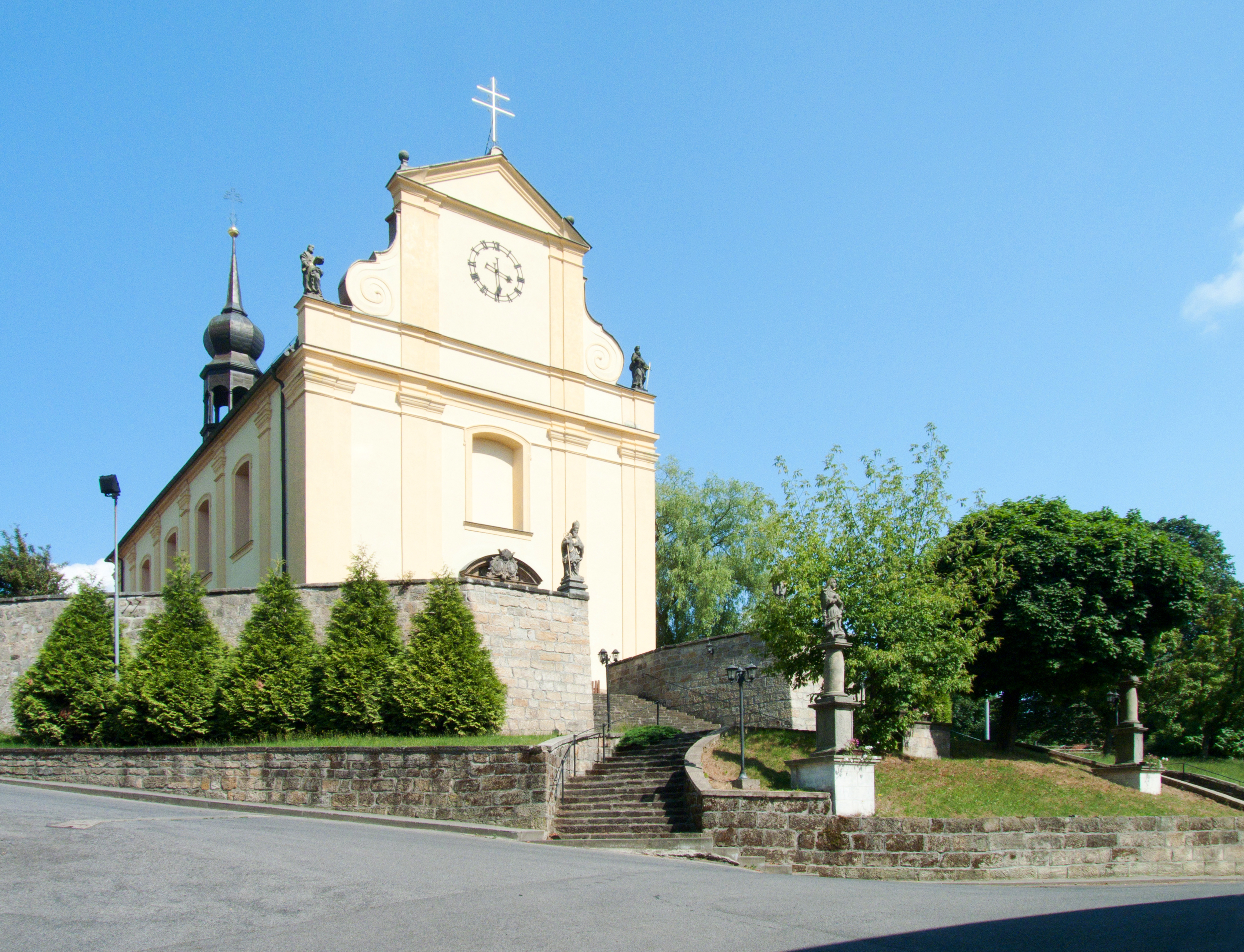 Saints Peter and Paul Church in the village of Janov, Děčín District, Czech Republic